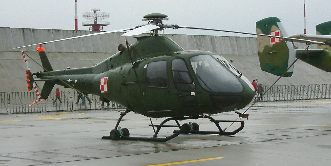 PZL SW-4 #0203 of Polish Air Forces, 31st. Air Base Poznań-Krzesiny